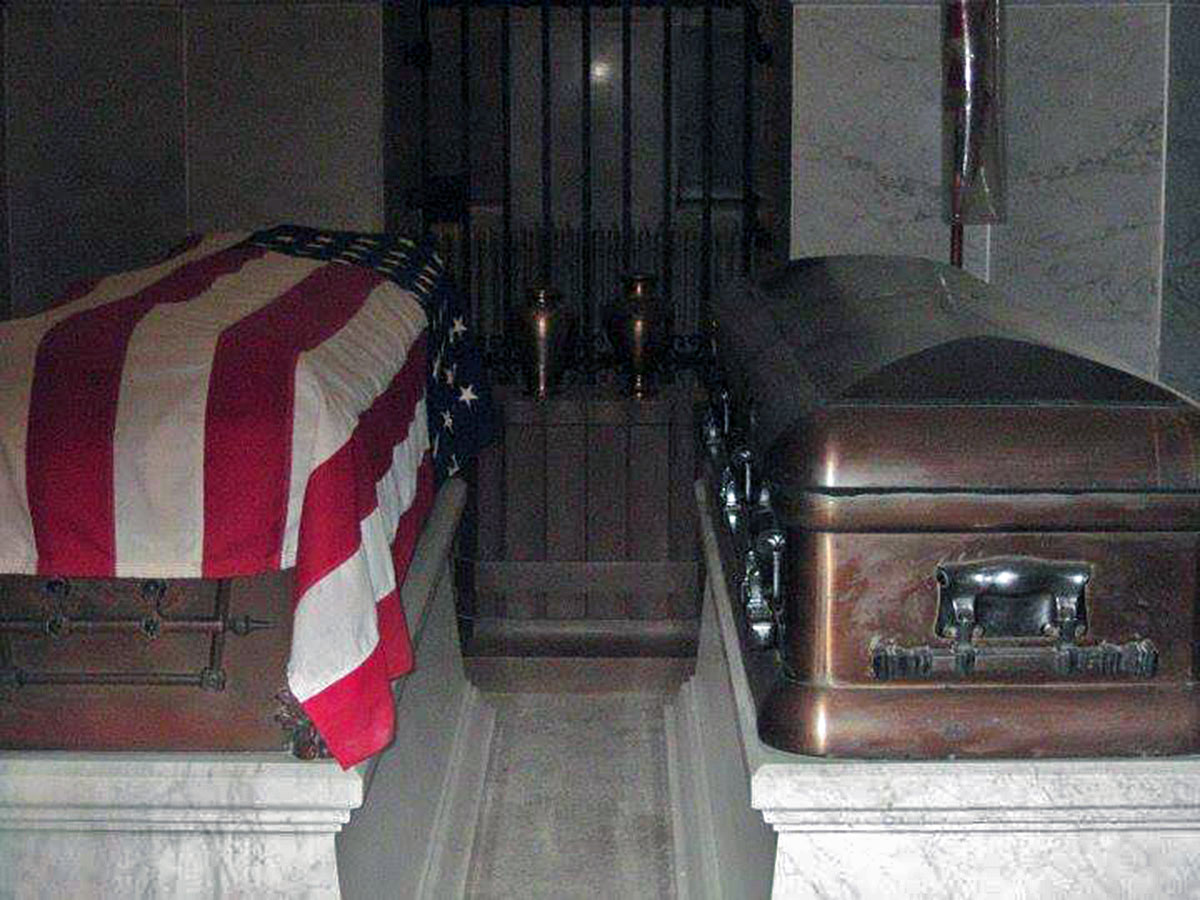 Garfield Memorial